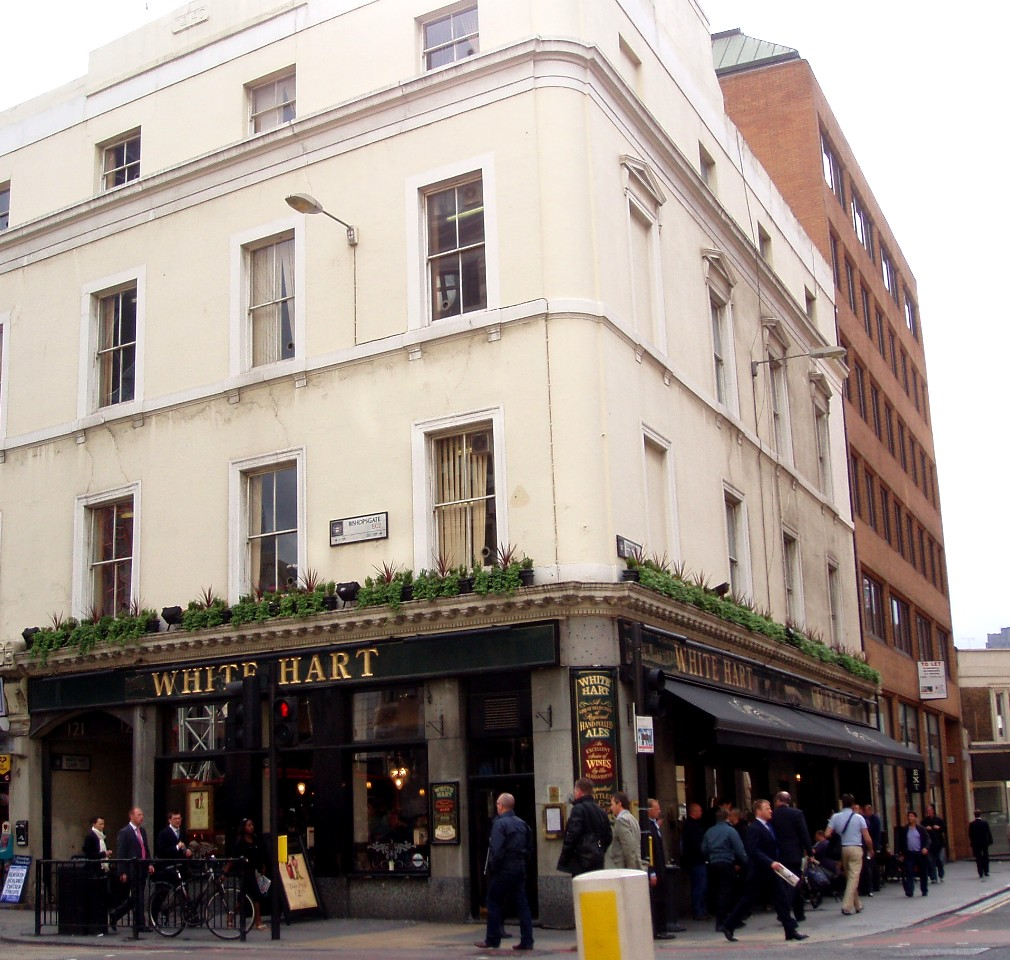 Pub just opposite Liverpool Street station. Address: 121 Bishopsgate. Owner: Mitchells and Butlers [Nicholson's] (website). Links: Beer in the Evening Dead Pubs (history)